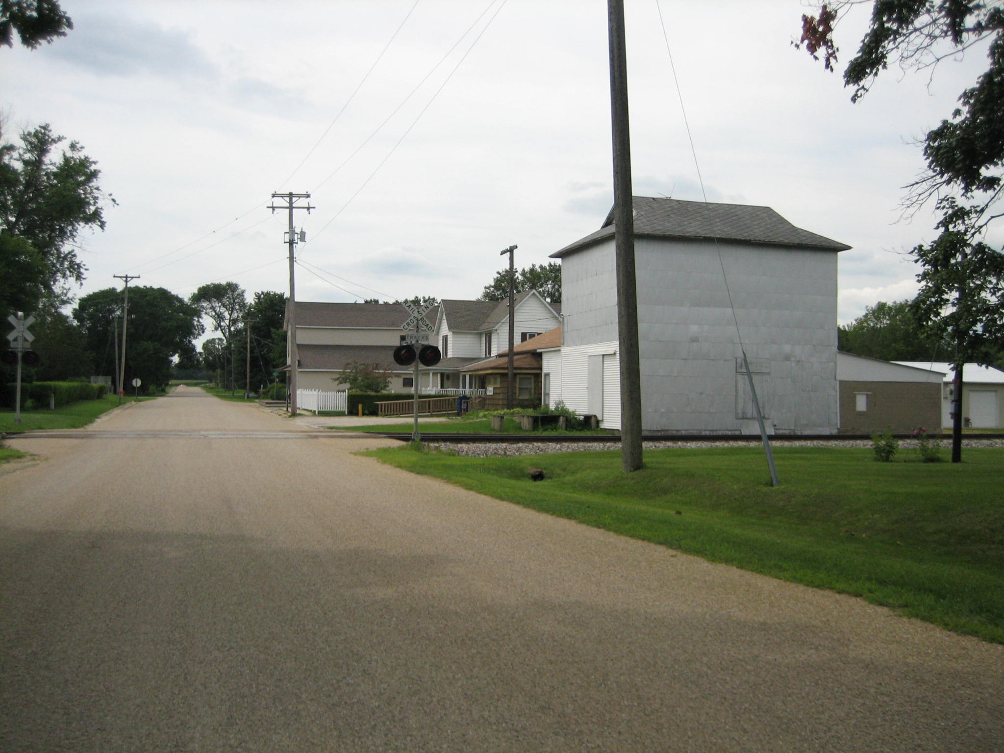 Eleroy, Illinois, USA (pop. 85). Railroad crossing and buildings, including the post office.